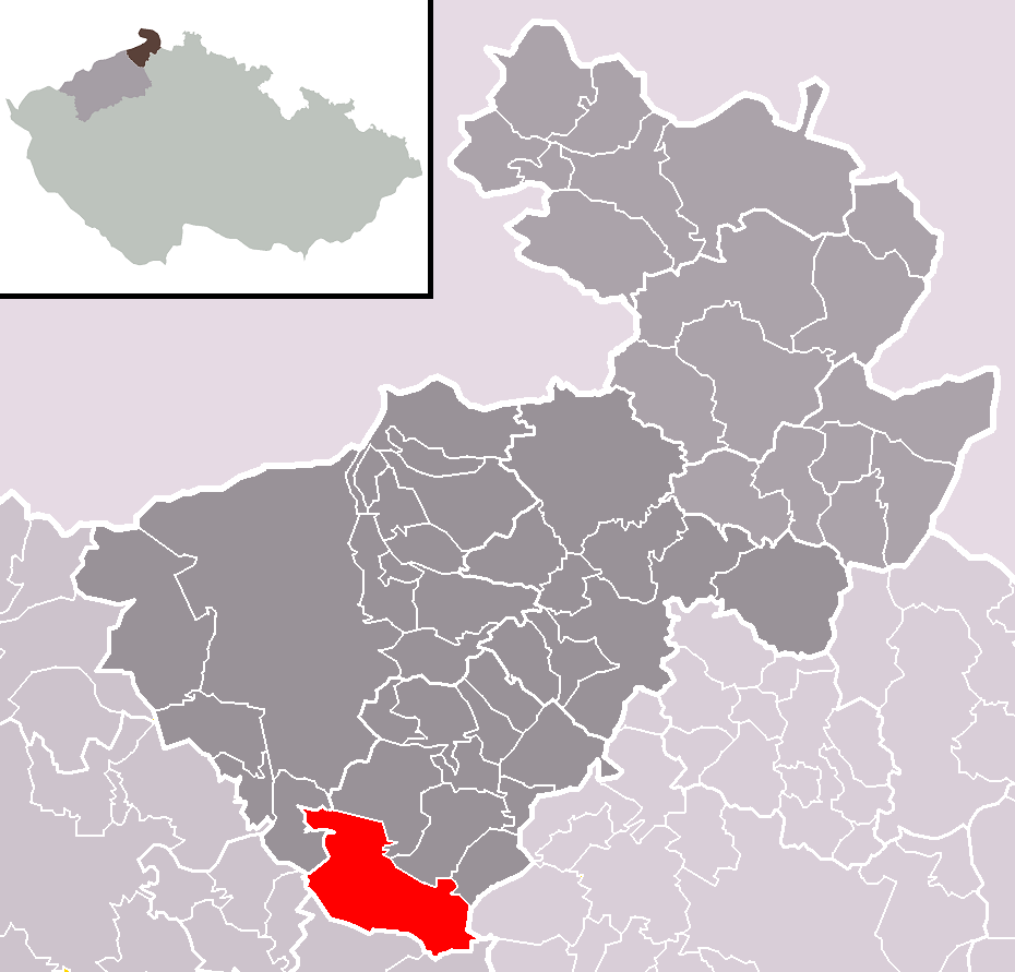 Location of Verneřice town within Děčín District and administrative area of Děčín as a Municipality with Extended Competence.